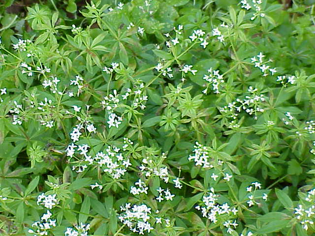 Species: Galium odoratum Family: Rubiaceae Image No. 2